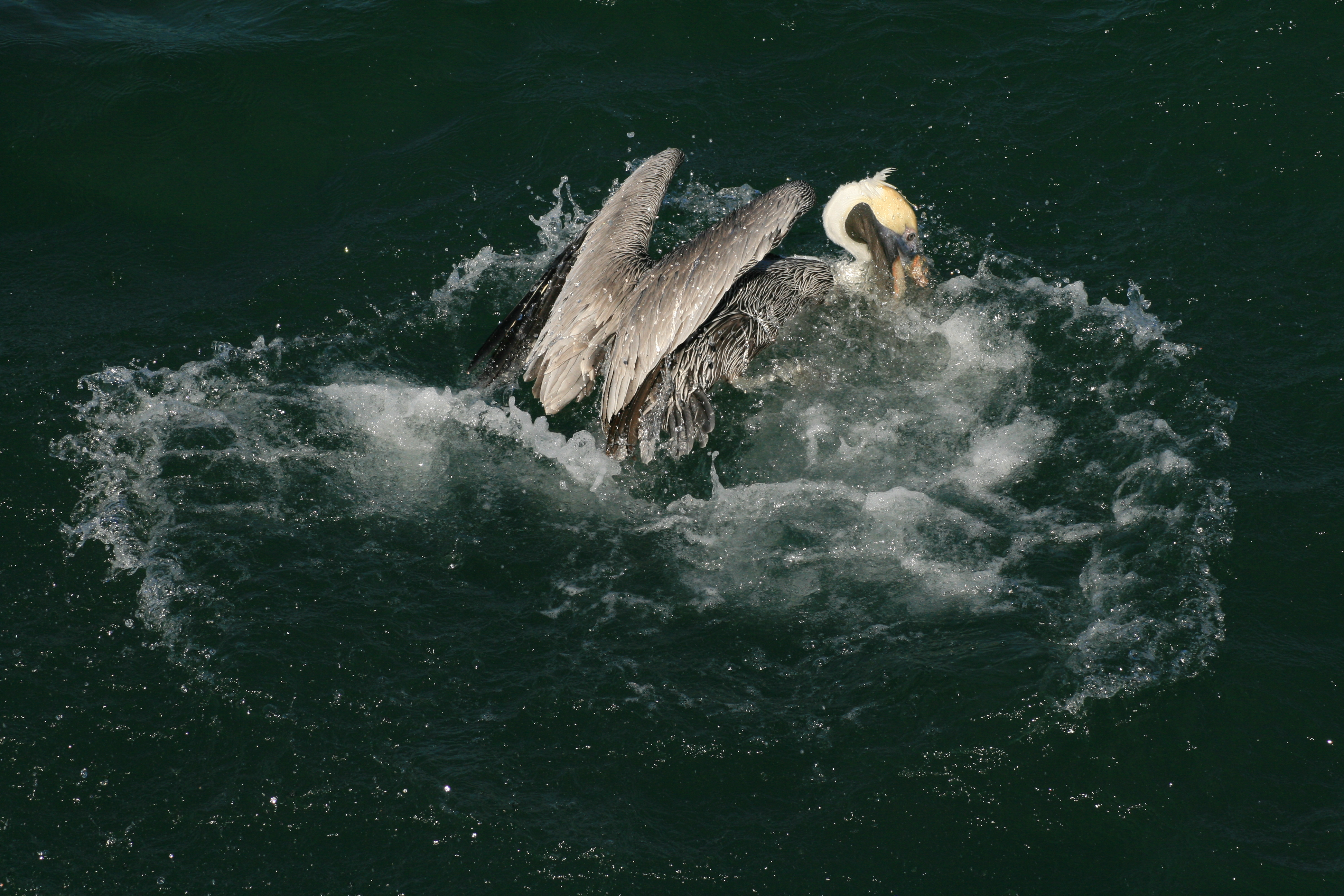 Brown pelican in water. Commercial Pier, Pompano Beach, Florida.